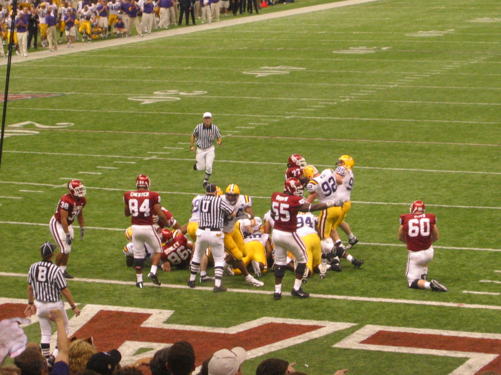 In-game scene from the 2004 Sugar Bowl game in College Football between the Louisiana State University and the University of Oklahoma